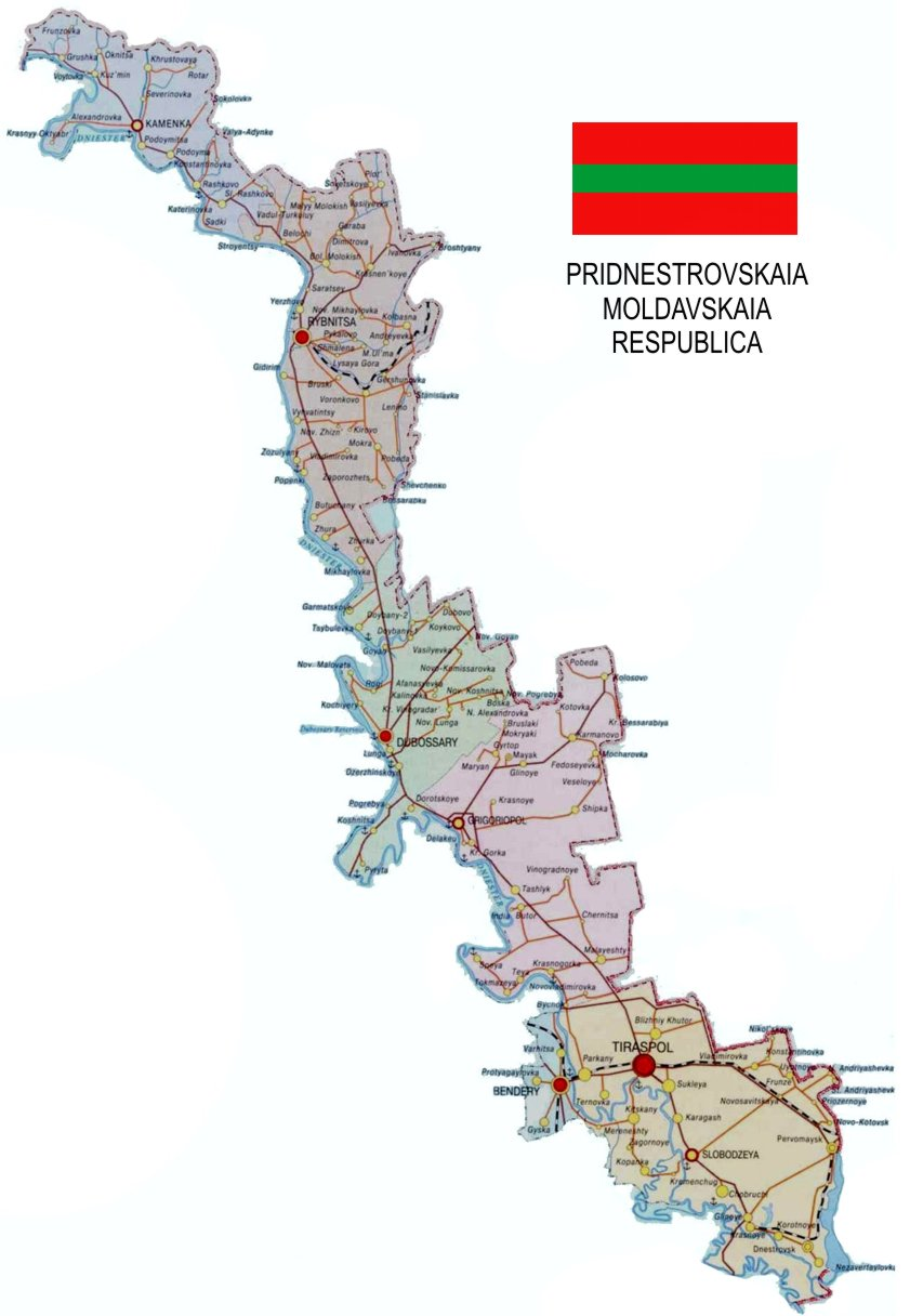 Detailed map of Transnistria (Pridnestrovie). The file is from , an official website.